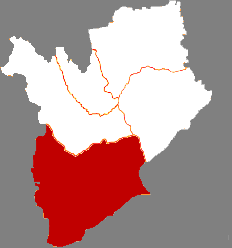 Location of Tongyu county in Baicheng City, China